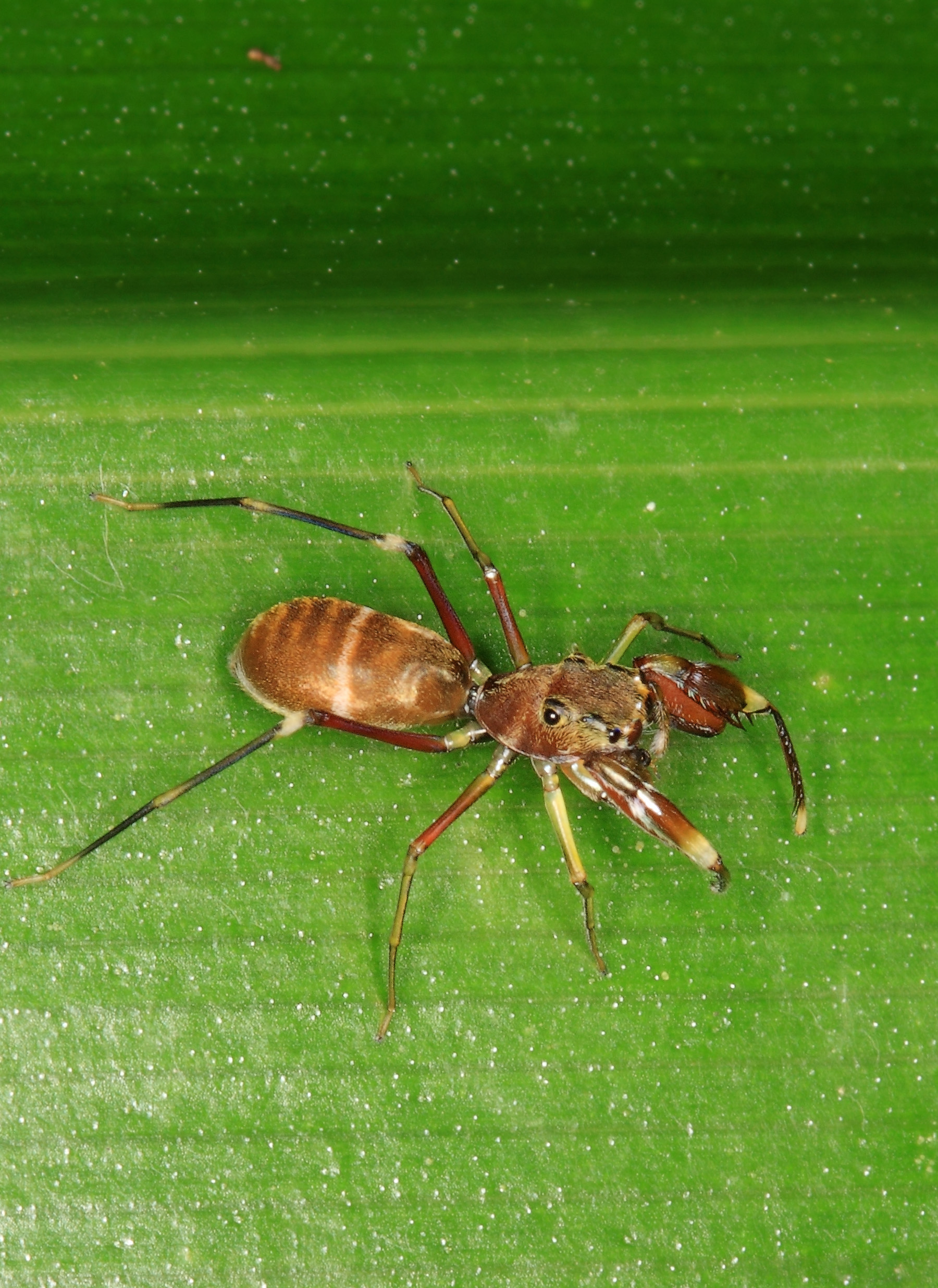 Phylum: Arthropoda LATREILLE, 1829 (arthropods, Gliederfüßer) Subphylum: Chelicerata Class: Arachnida CUVIER, 1812 (arachnids, Spinnentiere) Subclass: Micrura Infraclass: Megoperculata Order: Araneae CLERCK, 1757 (spiders, Webspinnen) Suborder: Araneomorphae (Echte Webspinnen) Superfamily: Salticoidea Family:Salticidae BLACKWALL, 1841 (jumping spiders, Springspinnen) Subfamily: Dioleniae (or Agoriinae?) Genus: Diolenius THORELL, 1870 Diolenius phrynoides WALCKENAER, 1837 ?, ♀ [det. D.E. Hill, 2011, based on photos] taxonomical info at: Indonesia, W-Papua, Sorong, Raja Ampat: Kri Island (vic. Pulau Mansuar), 60m asl., 30.12.2010 (IMG_8304)